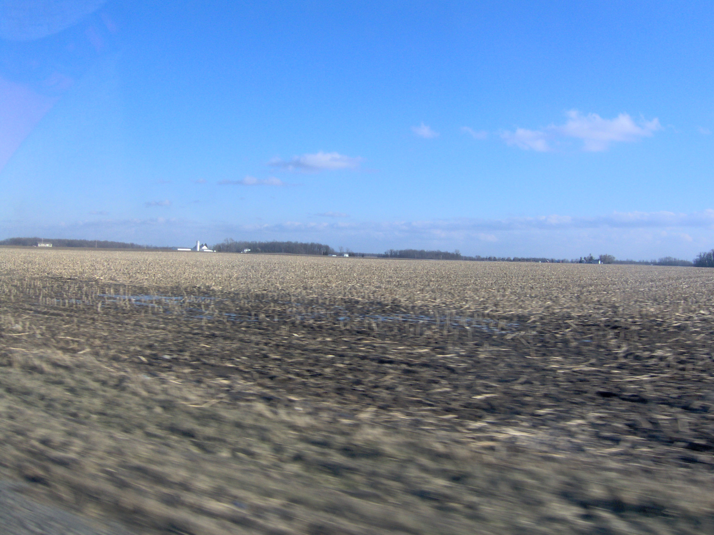 View of farmlands in Bloomfield Township, Logan County, Ohio.